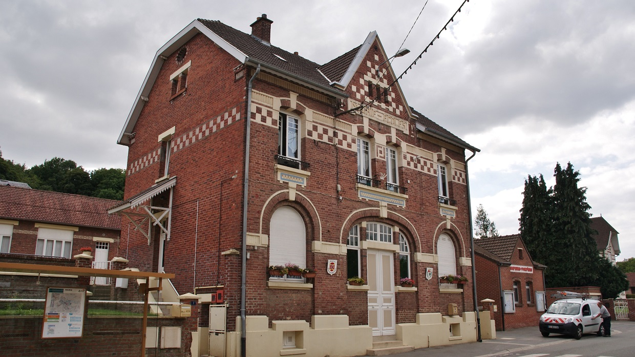 La Mairie